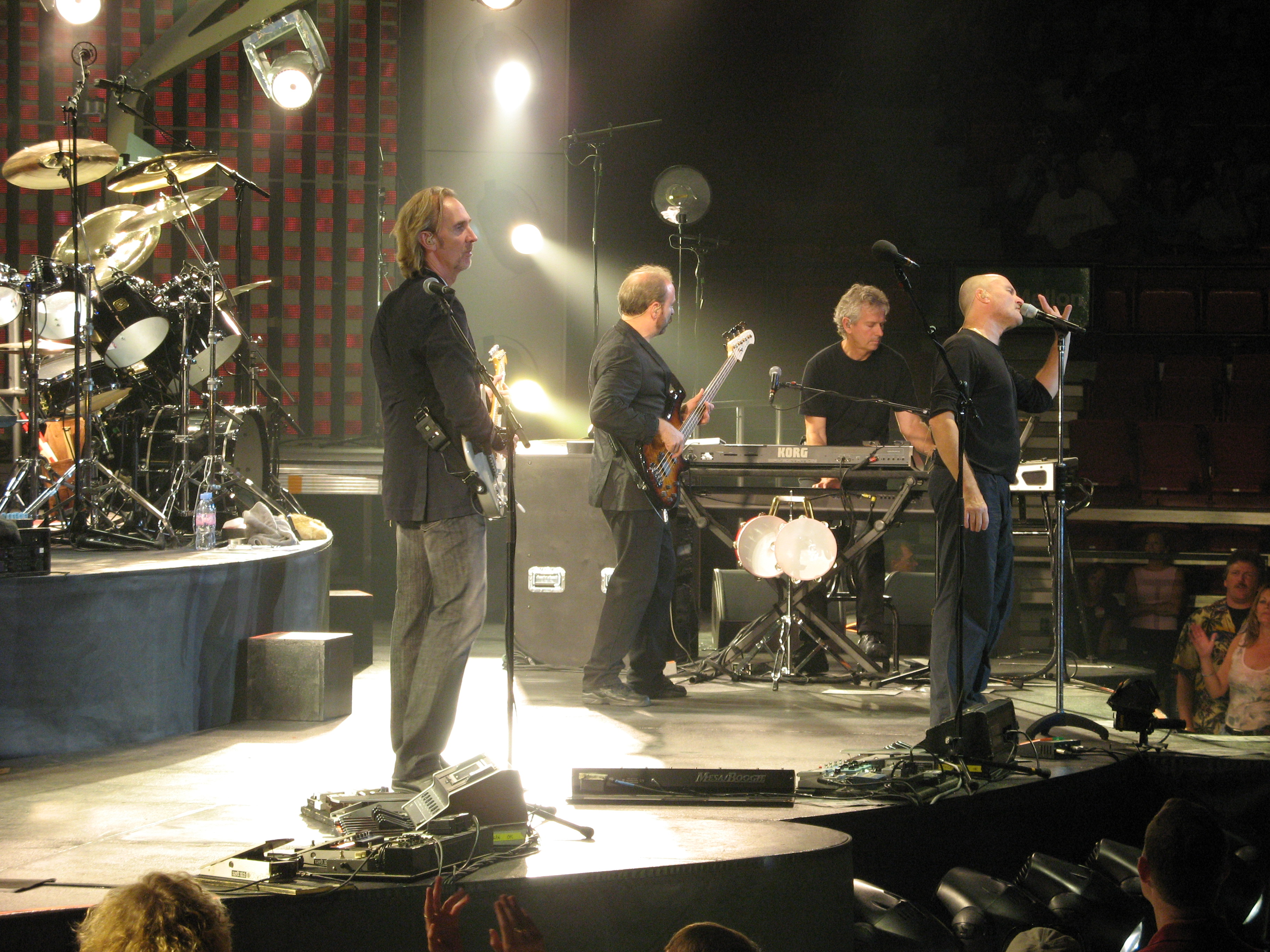 Genesis concert at the Mellon Arena, Pittsburgh, Pennsylvania, USA. Performing "Throwing It All Away".